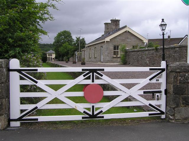 Belcoo Railway Station Now a dwelling